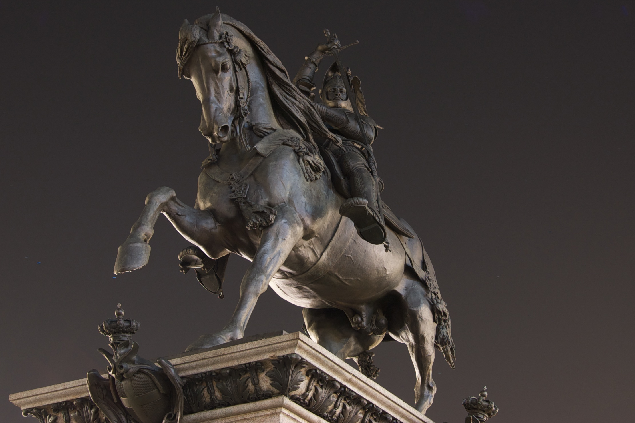 Caval ëd Brons by night.